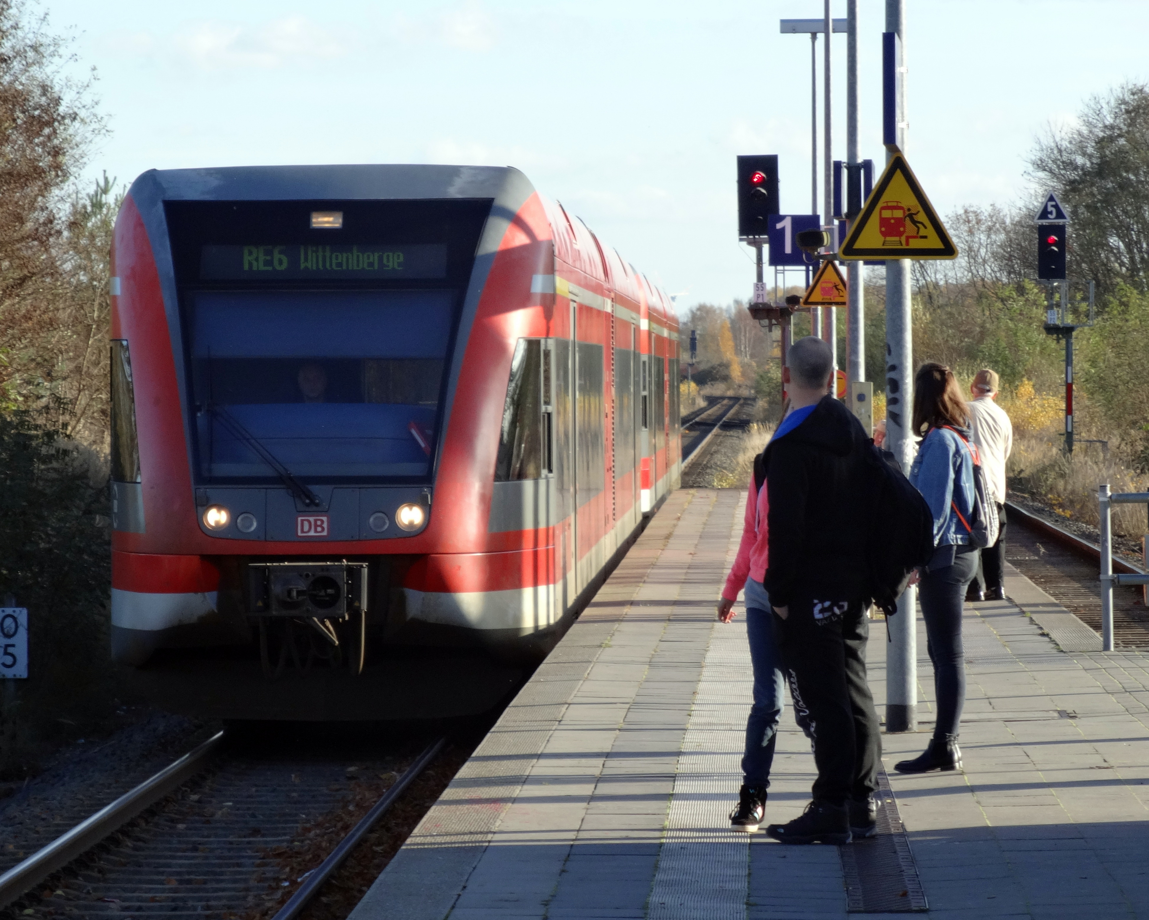 Kremmen railway station